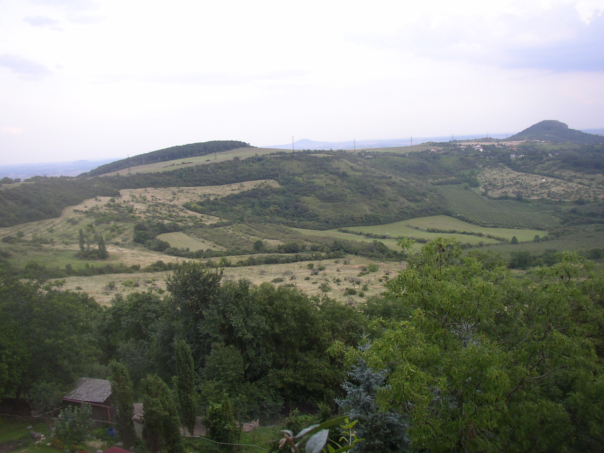 České středohoří, Czech Republic. Hill of Bídnice (361 m) as seen from northwest, from Kamýk Castle ruin.